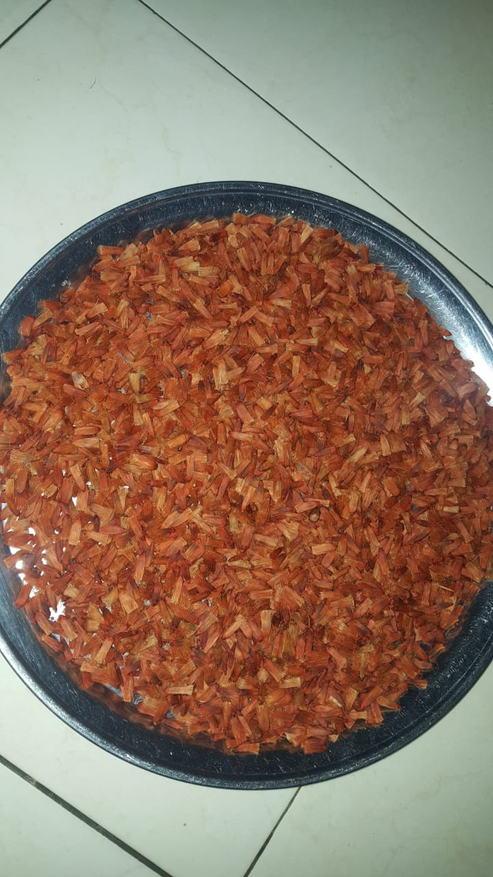 Red fruit seeds from Papua